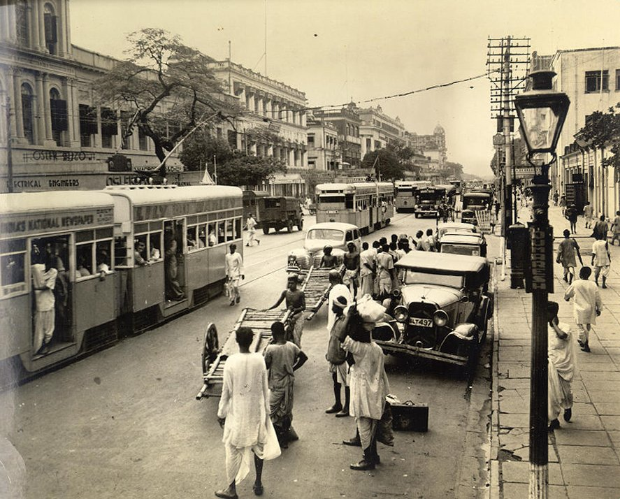 A photo of Kolkata street from 1945 GI photo collection. The original description is "Calcutta's traffic is usually snarled. And the reasons are clearly shown. Shuffling coolies and padestrians with little regard for their lives seem completely oblivious to the perils of automitive traffic."